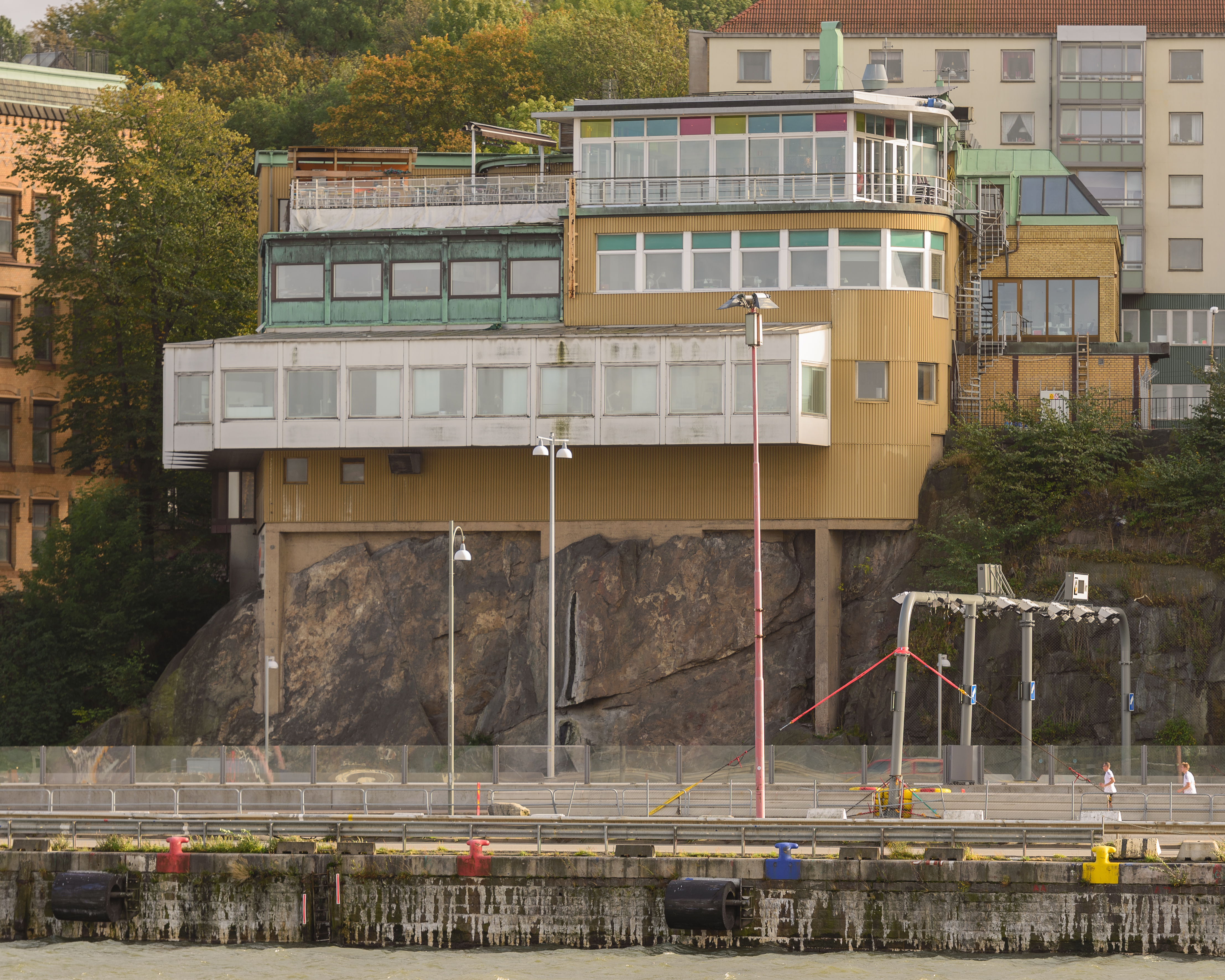 Historic restaurant Henriksberg seen from Göta älv (river). Gothenburg, Sweden